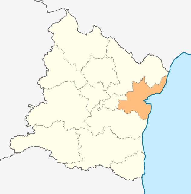 Map of Varna municipality, Varna Province